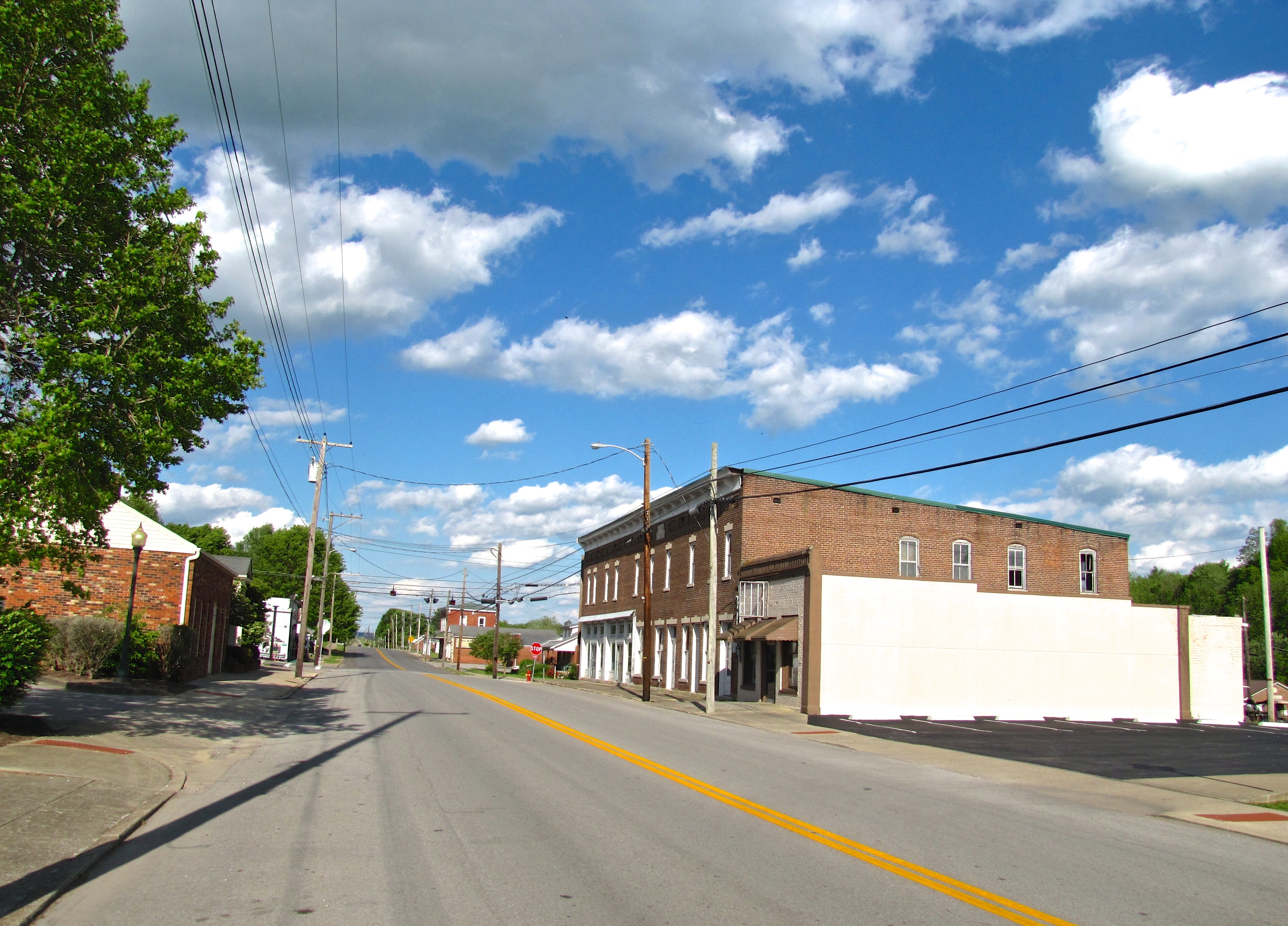 Buildings along Main Street (Kentucky Route 78) in Hustonville, Kentucky, United States.